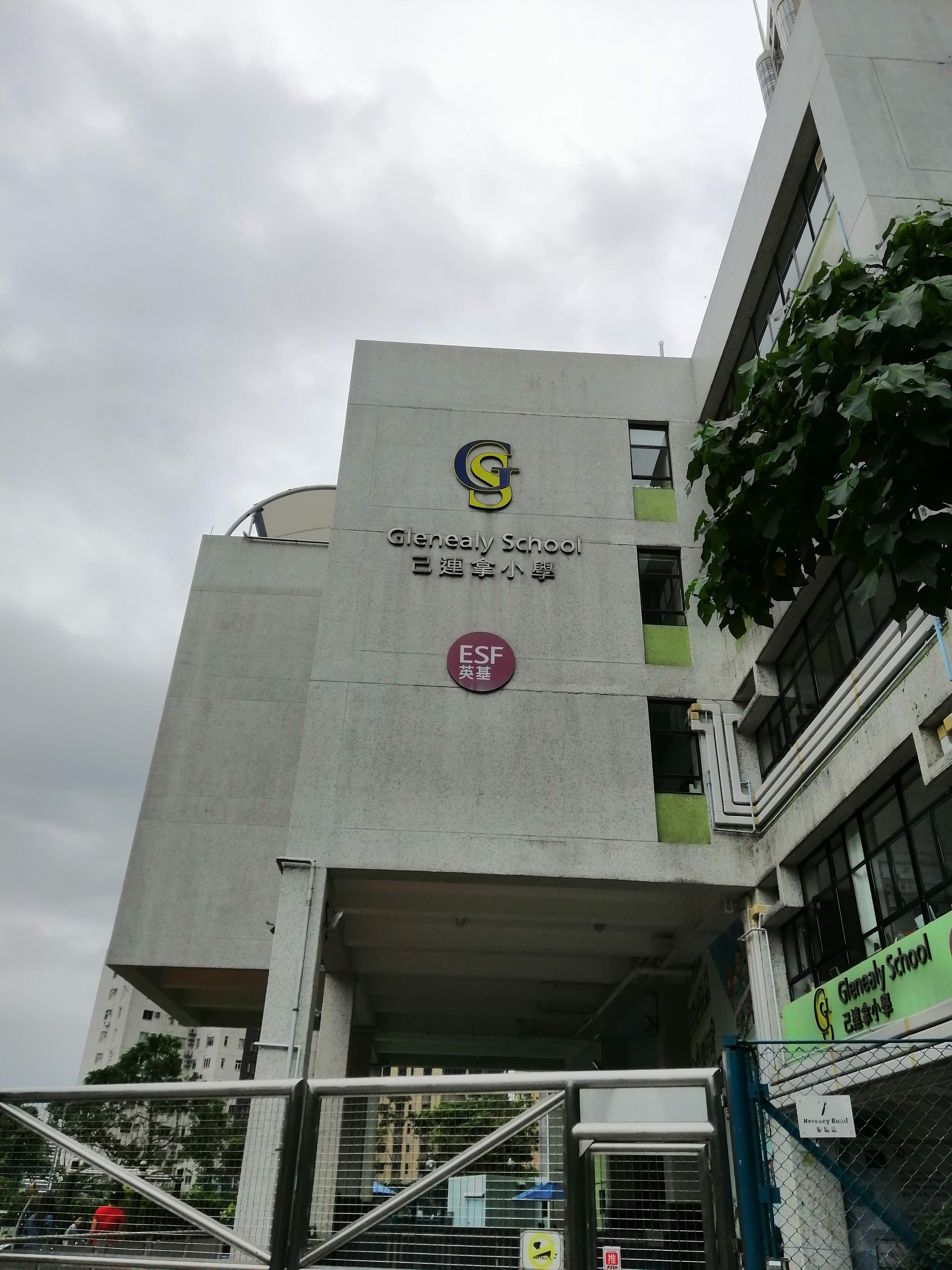 peak tram 10